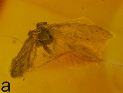 Spatalistiforma submerga Skalski, 1992. ZMCD (HT: 12-4/1957=LEP.SUCC.88 UZMC/AWS). Baltic amber. a. Dorsal view. Length of forewing 3 mm.